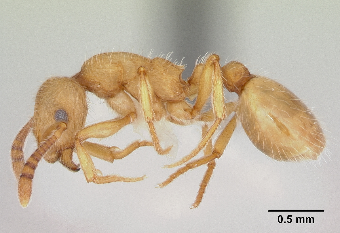 Profile view of ant Formicoxenus chamberlini specimen casent0103456.